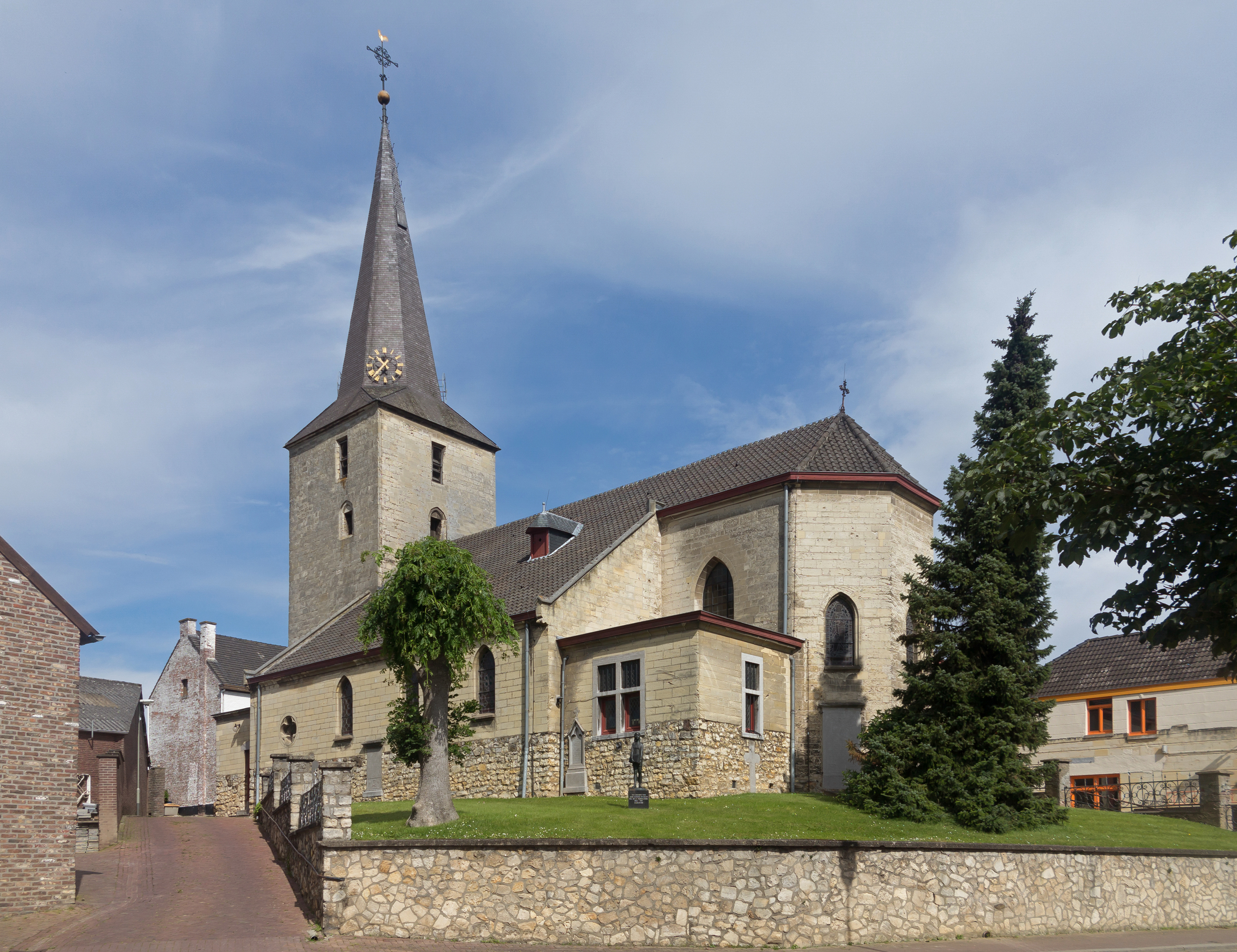 Eckelrade, church: de Sint-Bartholomeuskerk